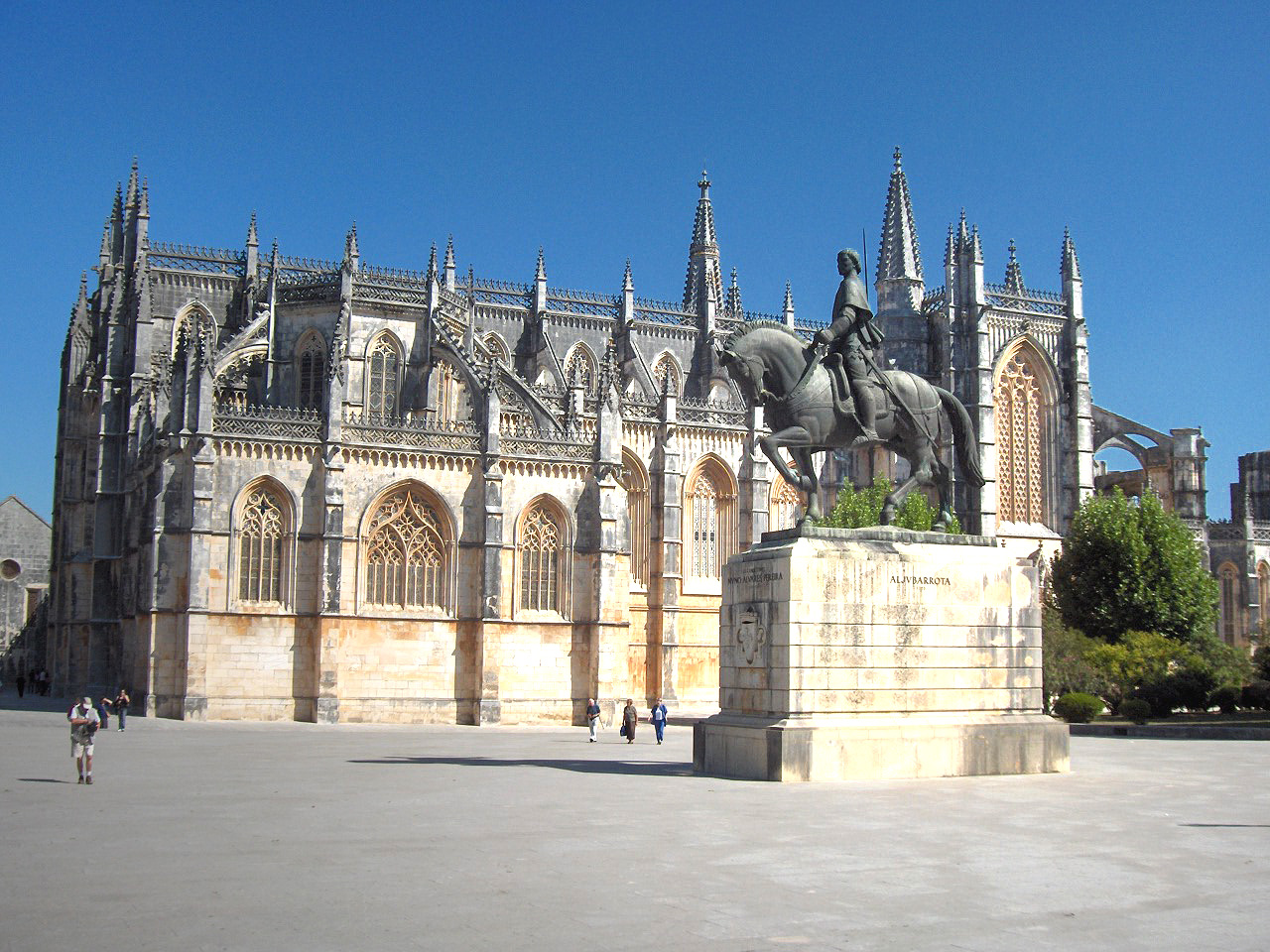 General view on the monastery of Batalha, Portugal